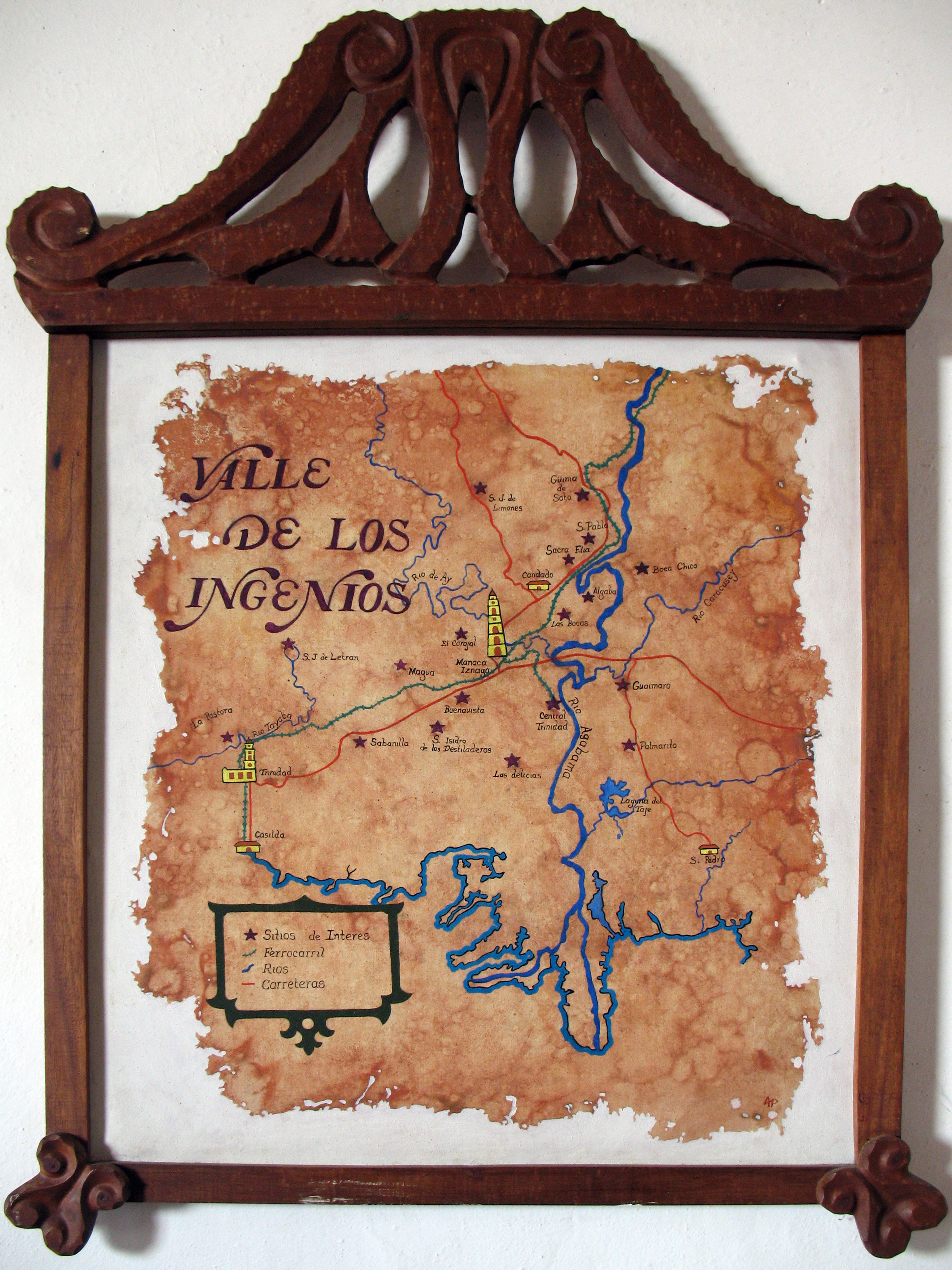 Valle de los Ingenios, Cuba